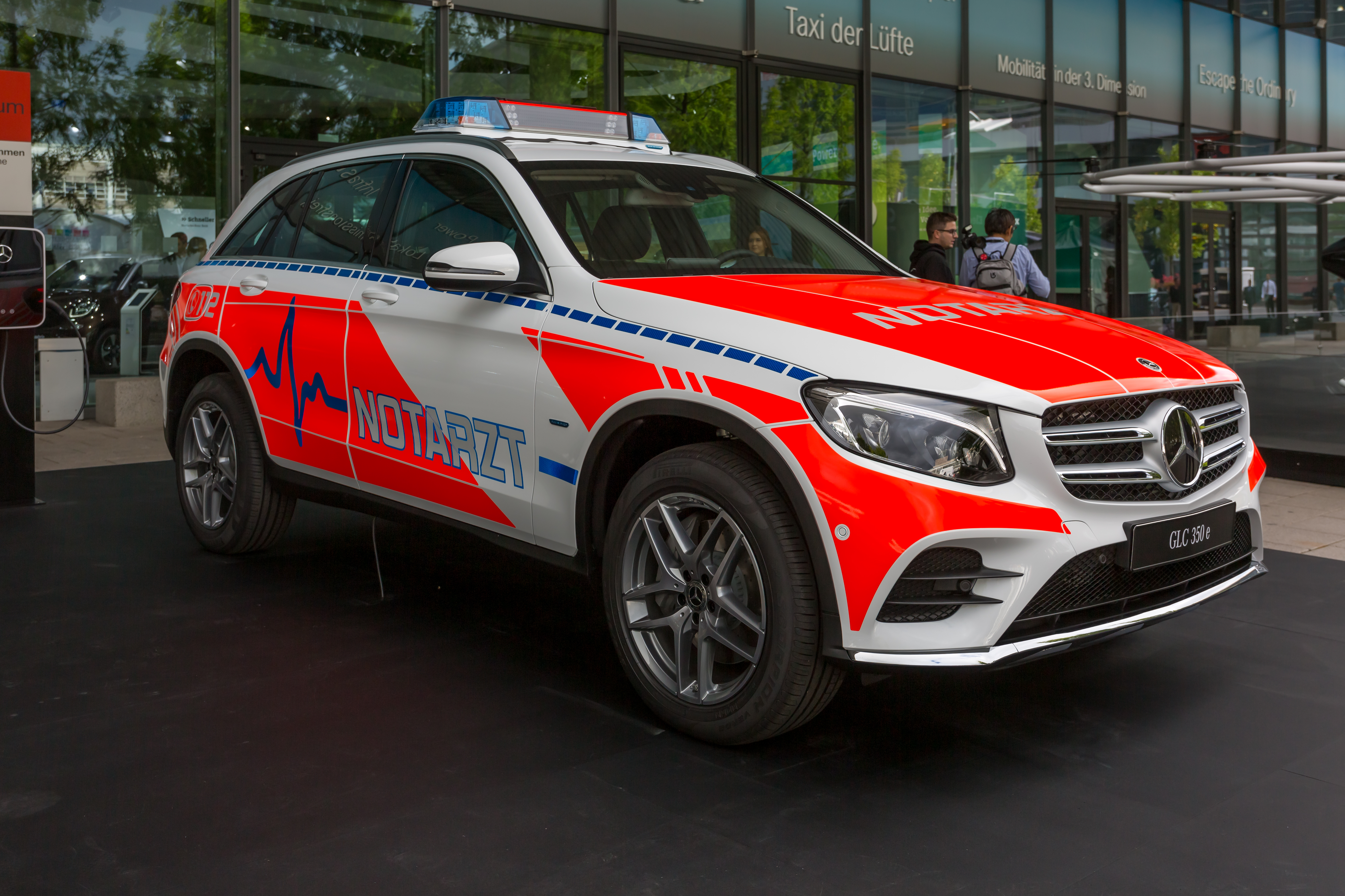 Notarzt Mercedes-Benz GLC 350 e